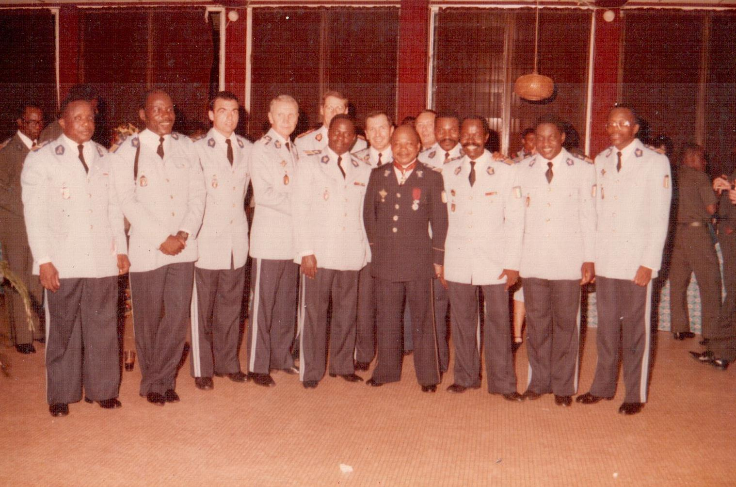 Chef d'Etat Major des Pompiers